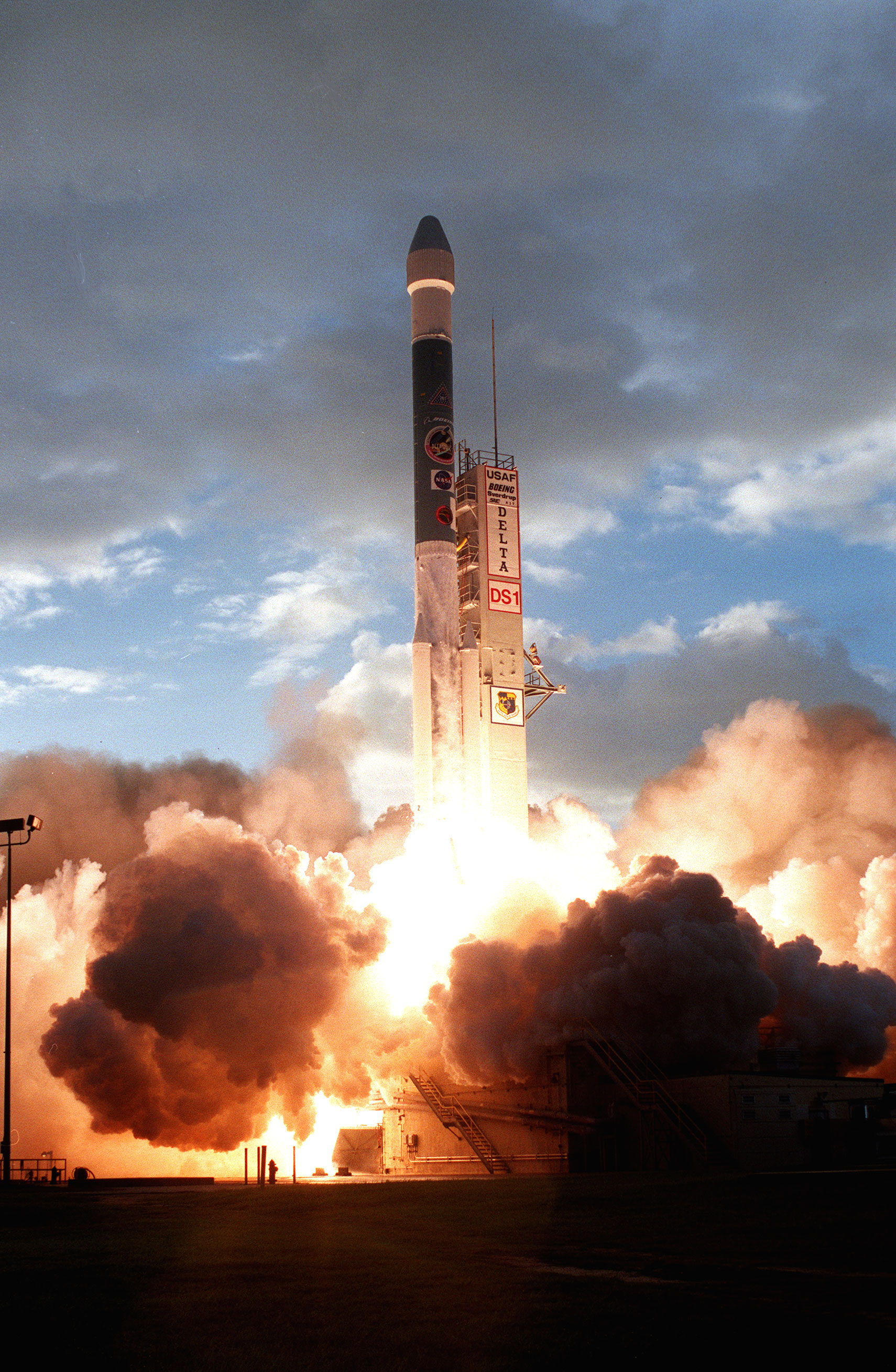 Lighting up the launch pad, a Boeing Delta II (7326) rocket propels Deep Space 1 through the morning clouds after liftoff from Launch Complex 17A, Cape Canaveral Air Station. The first flight in NASA's New Millennium Program, the spacecraft is designed to validate 12 new technologies for scientific space missions of the next century, including the ion propulsion engine. Propelled by the gas xenon, the engine is being flight- tested for future deep space and Earth-orbiting missions. Other onboard experiments include software that tracks celestial bodies so the spacecraft can make its own navigation decisions without the intervention of ground controllers. Deep Space 1 will complete most of its mission objectives within the first two months, but will also do a flyby of a near-Earth asteroid, 1992 KD, in July 1999.